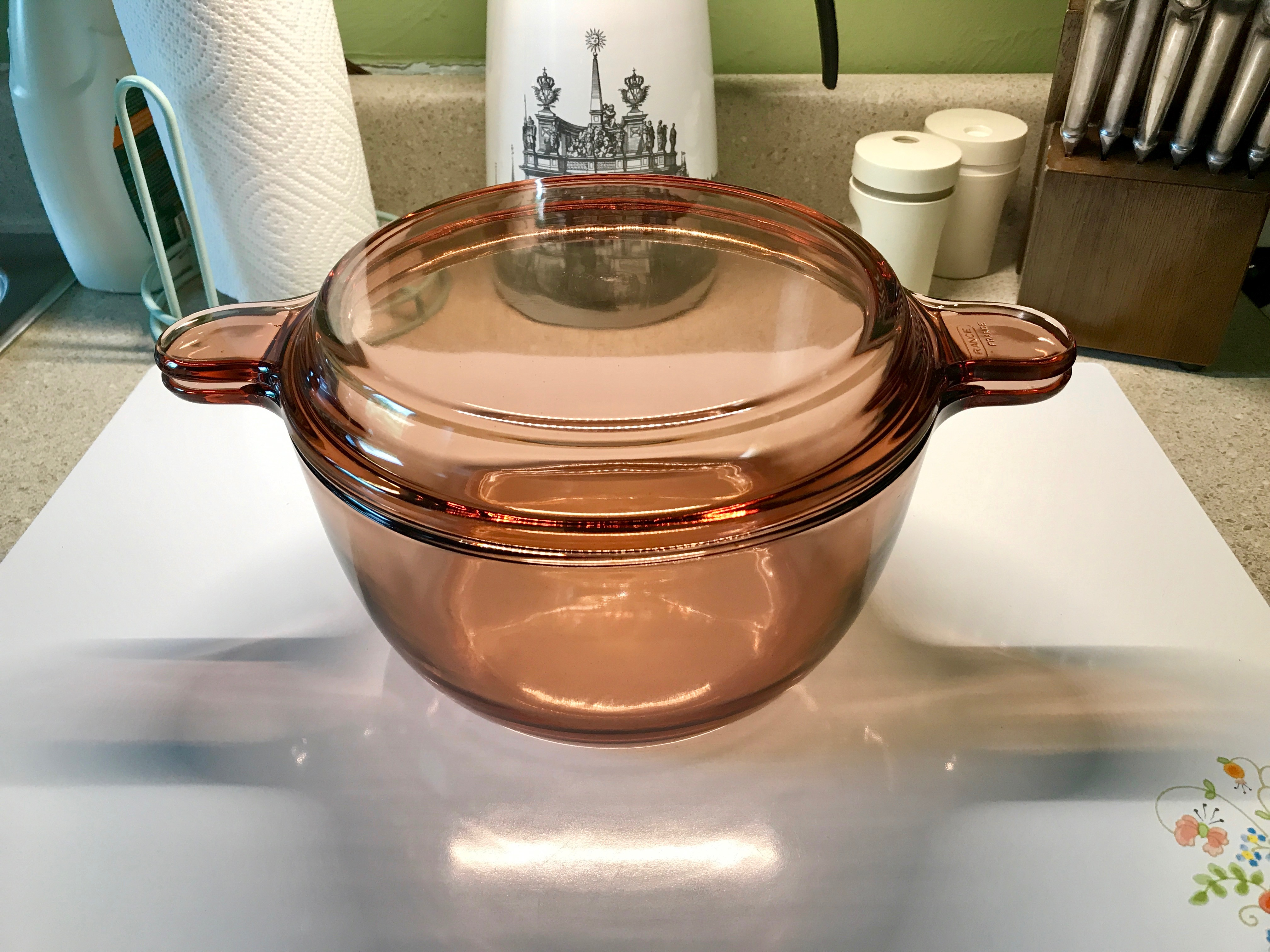 Corning LeCLAIR stewpot, made in France, circa 1981. Used as part of market testing for VISION cookware in the United States. It is notable for having a lid that could also be used as a skillet or baking pan.